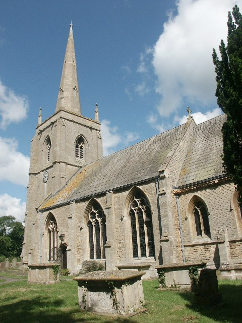 St Botolph, Quarrington. According to the church’s booklet, ‘A Short History by Christopher J. Micklethwaite’, the present church structure dates back to the 13th-century when the first Rector listed was Alexander de Brauncewell in 1218. The tower was built about 1325 and apart from the replacement of four pinnacles in 1887 restoration has been minimal. The Perpendicular styled font dates from the late 14th-century; however its cover is dated 1856. The raised quinquangular apse with its unusual style was designed and built by Charles Kirk (1825-1902), in 1862. Charles was head of a family firm of builders and architects at one time based in Sleaford and responsible for much 19th-century railway and ecclesiastical architecture and the restoration of the latter. He was a devout churchman and churchwarden of Quarrington and the tall candlesticks commemorate him. The wooden altar and reredos were carved by Jones in Willis in memory of Myra Brooks. The reredos in the Lady Chapel are wrought iron gates which date from 1889 and once provided access to the former vestry. The space in this has been taken up by the present organ and so a vestry and sacristy has been provided in the bottom of the tower.